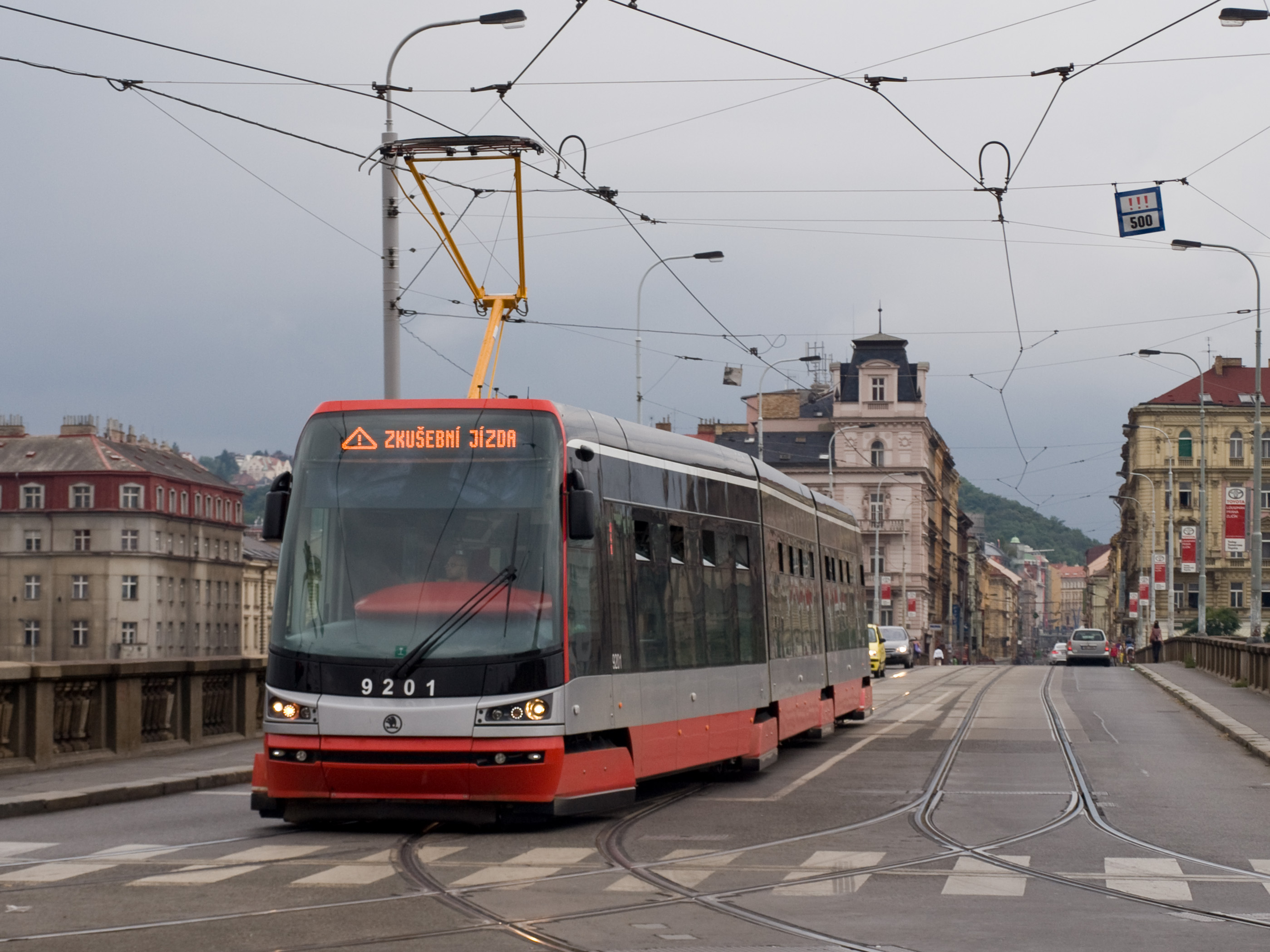 New tram 15T at Palackého námsěstí, Prague